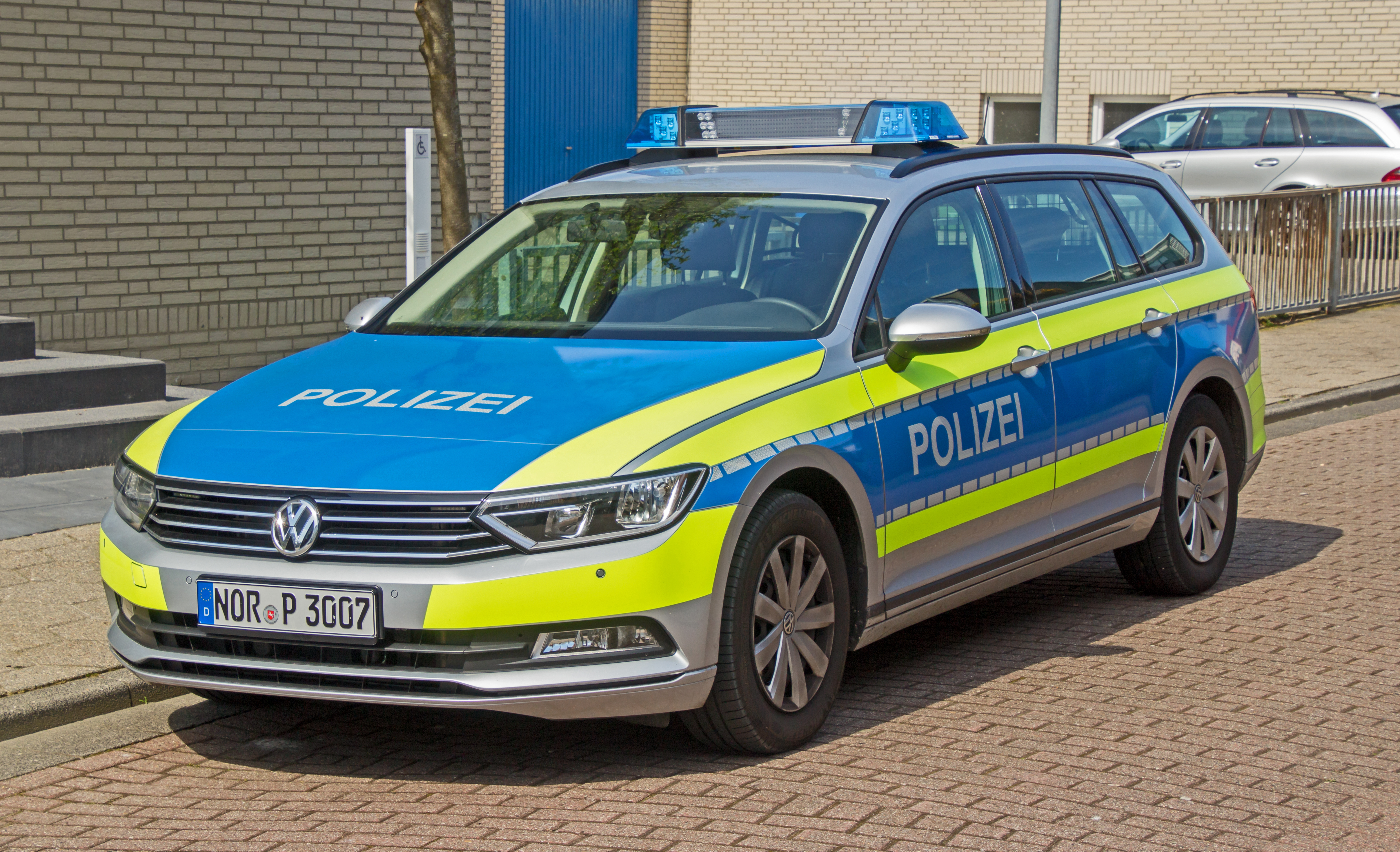 patrol car of state-police Lower Saxony (model "Volkswagen Passat Variant") - Norderney, Lower Saxony, Germany